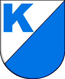 Coat of arms of the town of Kisangani.